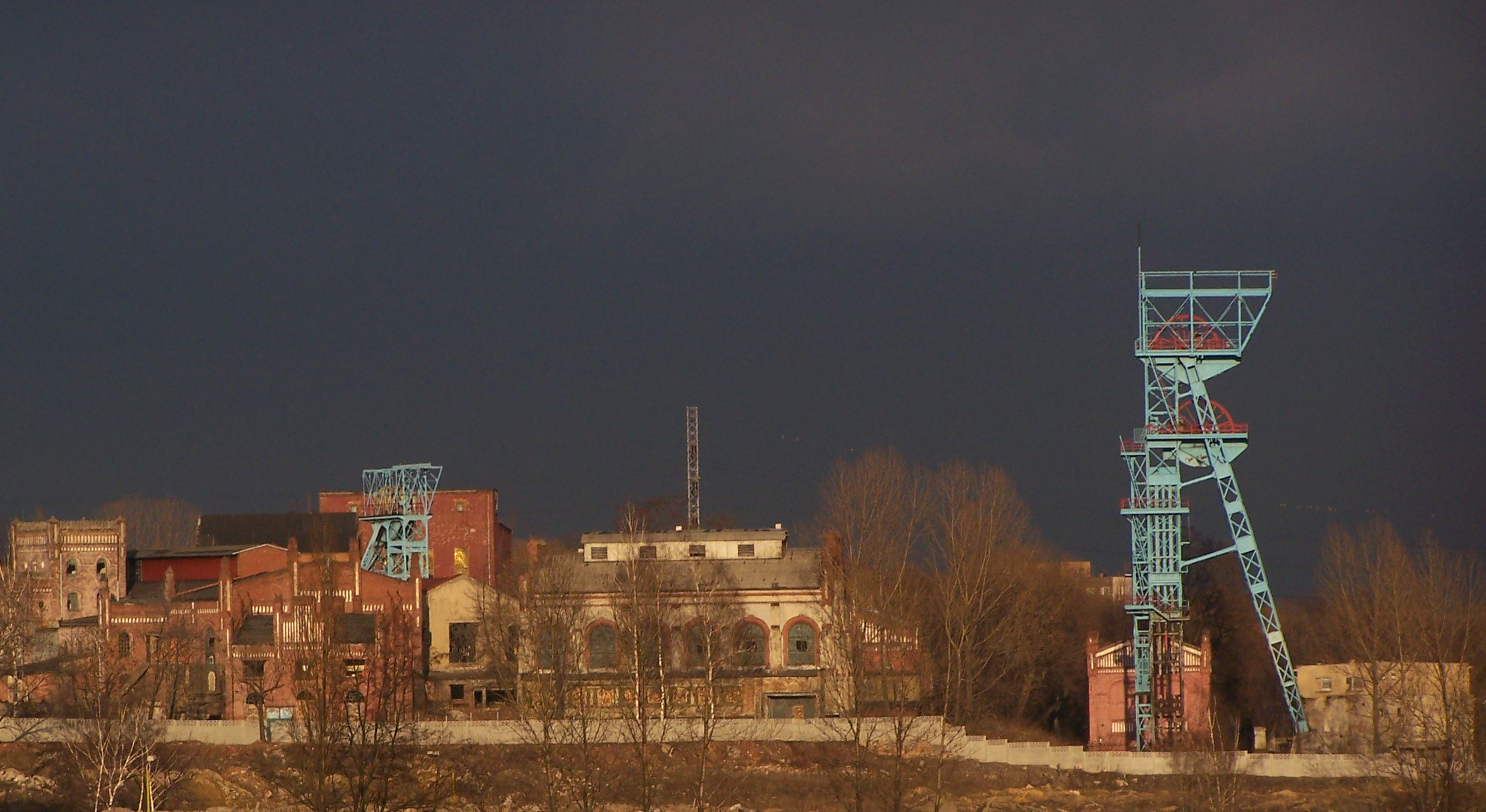 Old coal mine "Katowice" in Katowice (Poland).